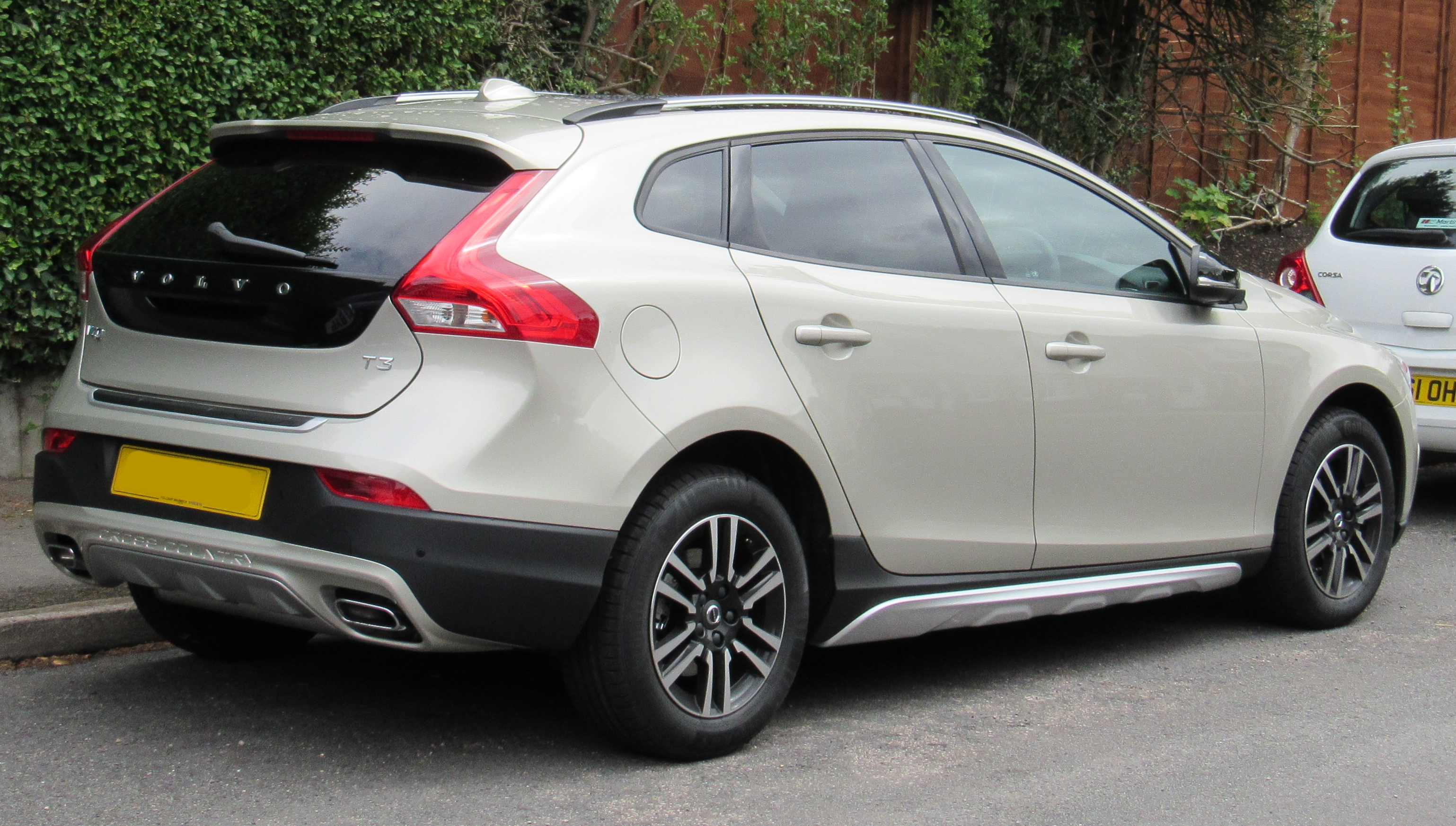 2017 Volvo V40 Cross Country 2.0 Rear Taken in Warwick